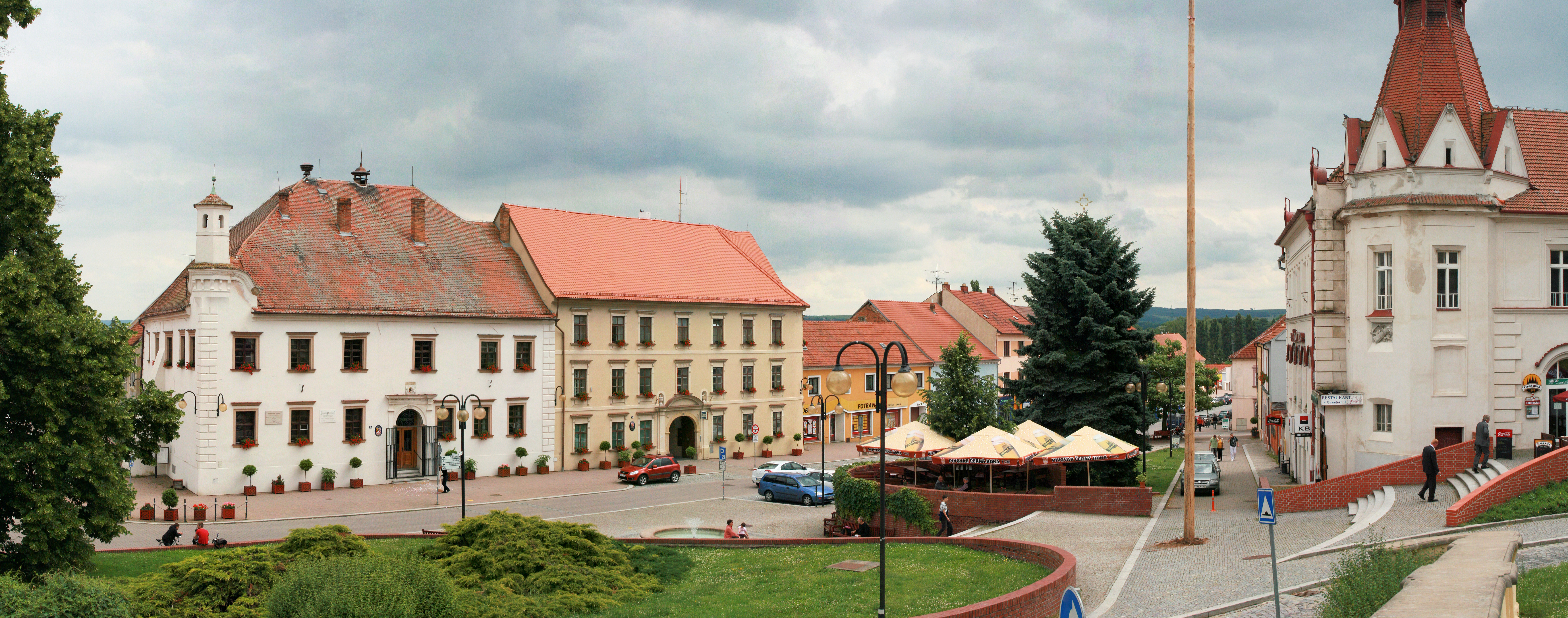 Palackeho square, Slavkov u Brna (Austerlitz). View from the castle hill. Česky: Centrální Palackého náměstí ve Slavkově u Brna. Vlevo radnice s policejní stanicí, vpravo kulturní dům. Pohled ze severu od zámku.